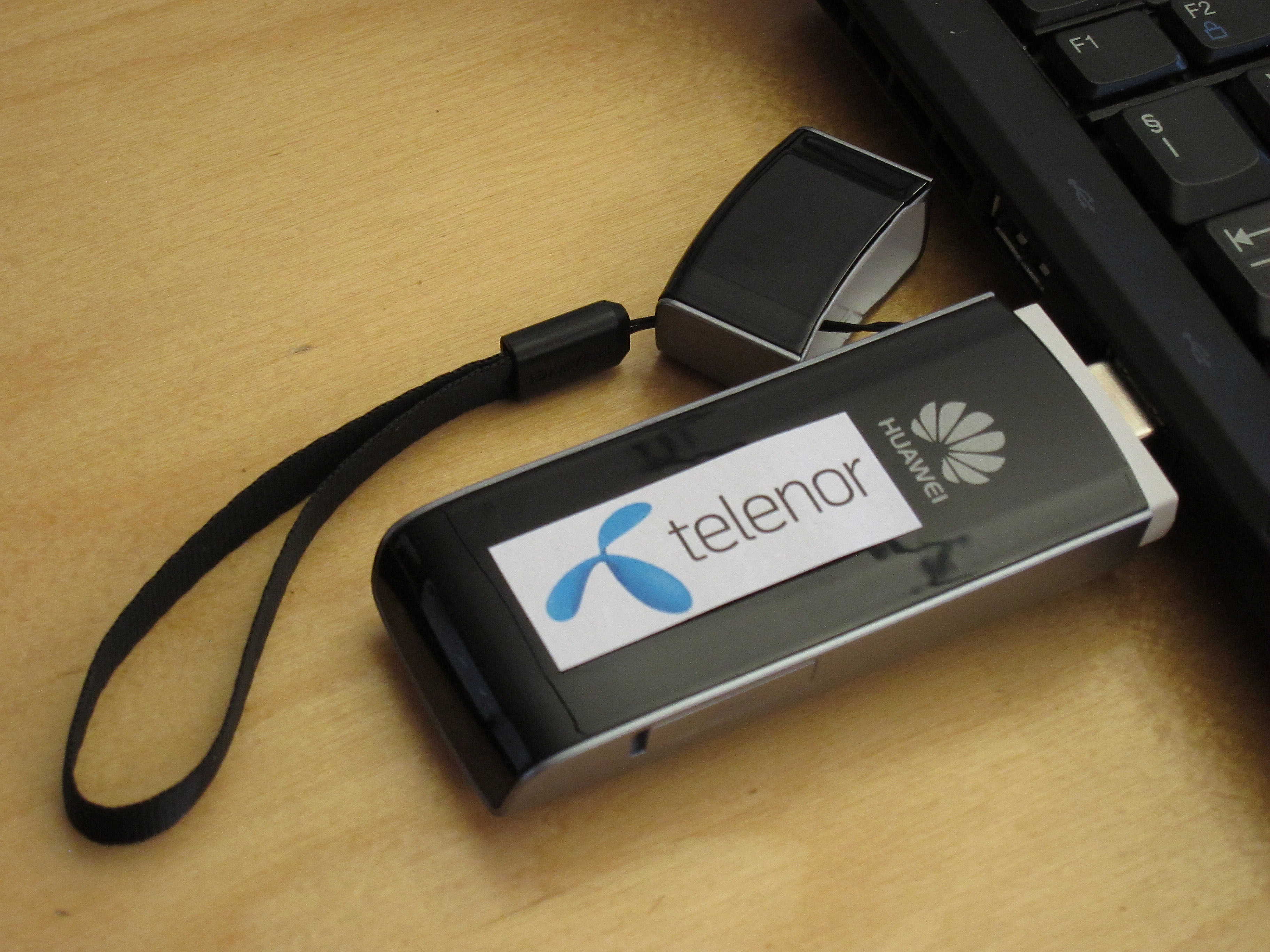 USB modem for PC, 2011. Adaptible for 4G mobile broadband (LTE). Telenor version, Norway.